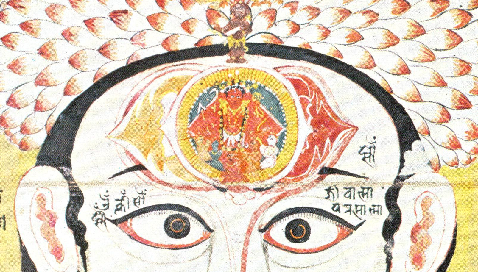 Brow Chakra Rajasthan 18th Century